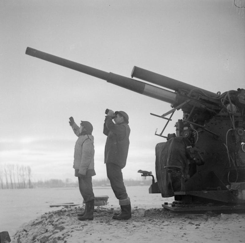 The Campaign in North West Europe 1944-45 3.7-inch anti-aircraft gun of 484/139 (Mixed) Heavy Anti-Aircraft Regiment, Royal Artillery, Belgium, 11 January 1945.